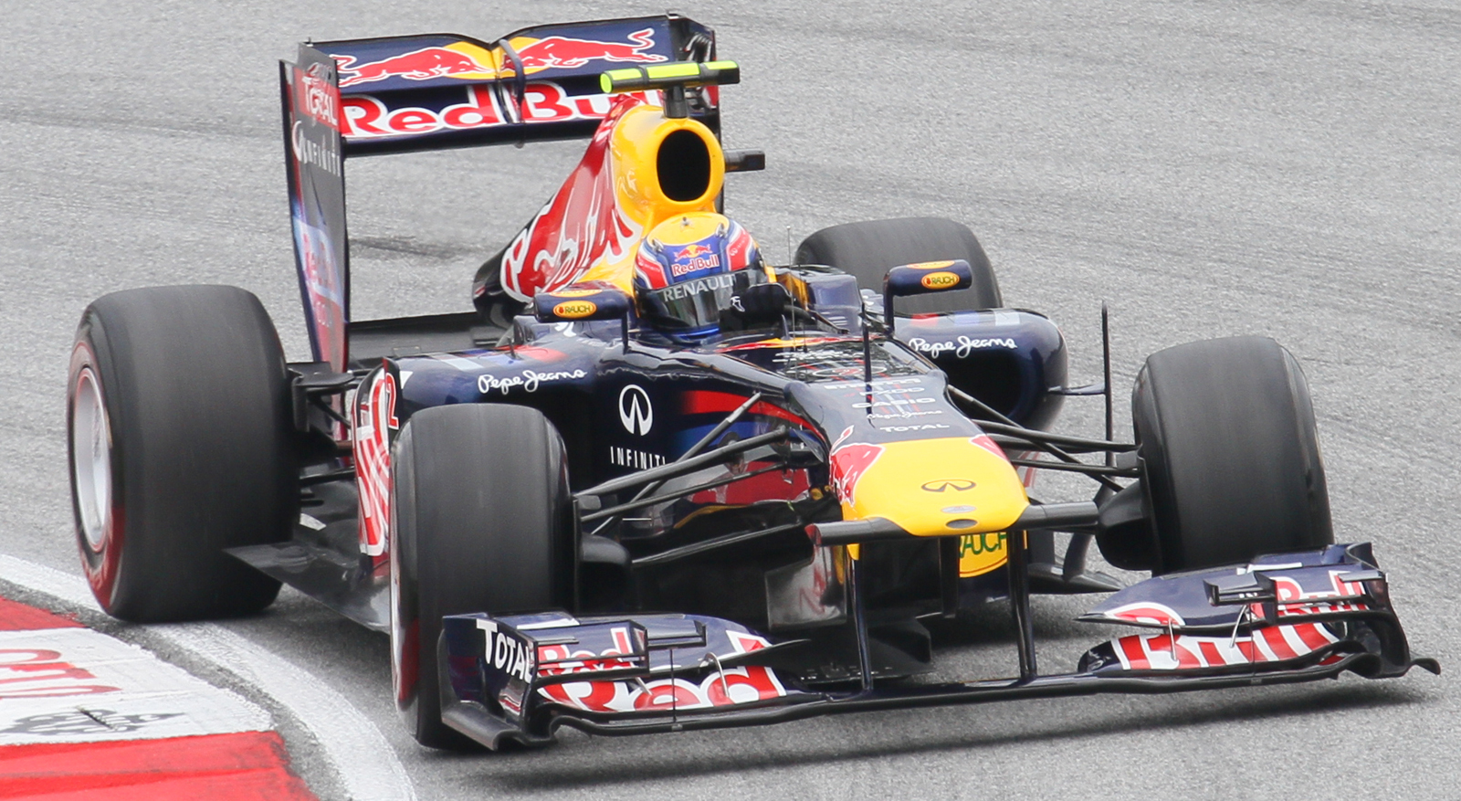 Formula One 2011 Rd.2 Malaysian GP: Mark Webber (Red Bull) during the third practice session on Saturday.